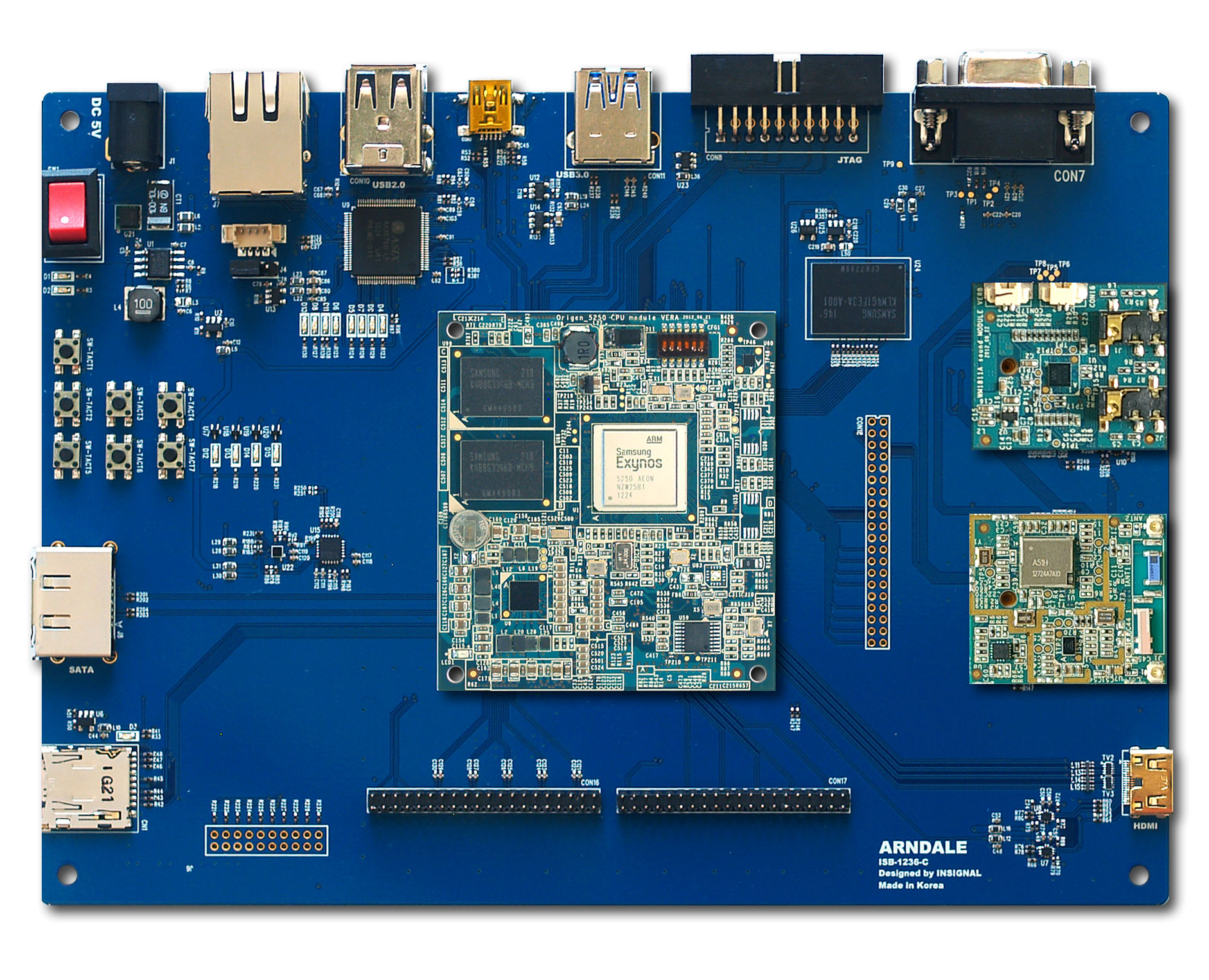 Arndale Board 5250 A development board, with Samsung Exynos 5250, including Cortex A15 MPCore dualcore CPU and Mali T-604 GPU